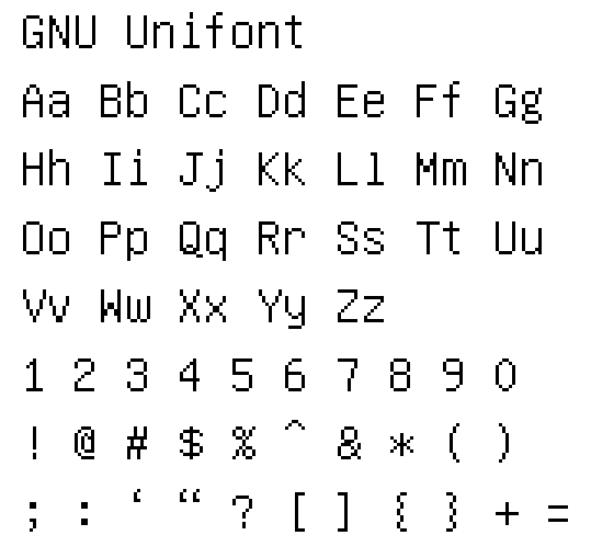 This image shows off many of the characters from the GNU Unicode font.